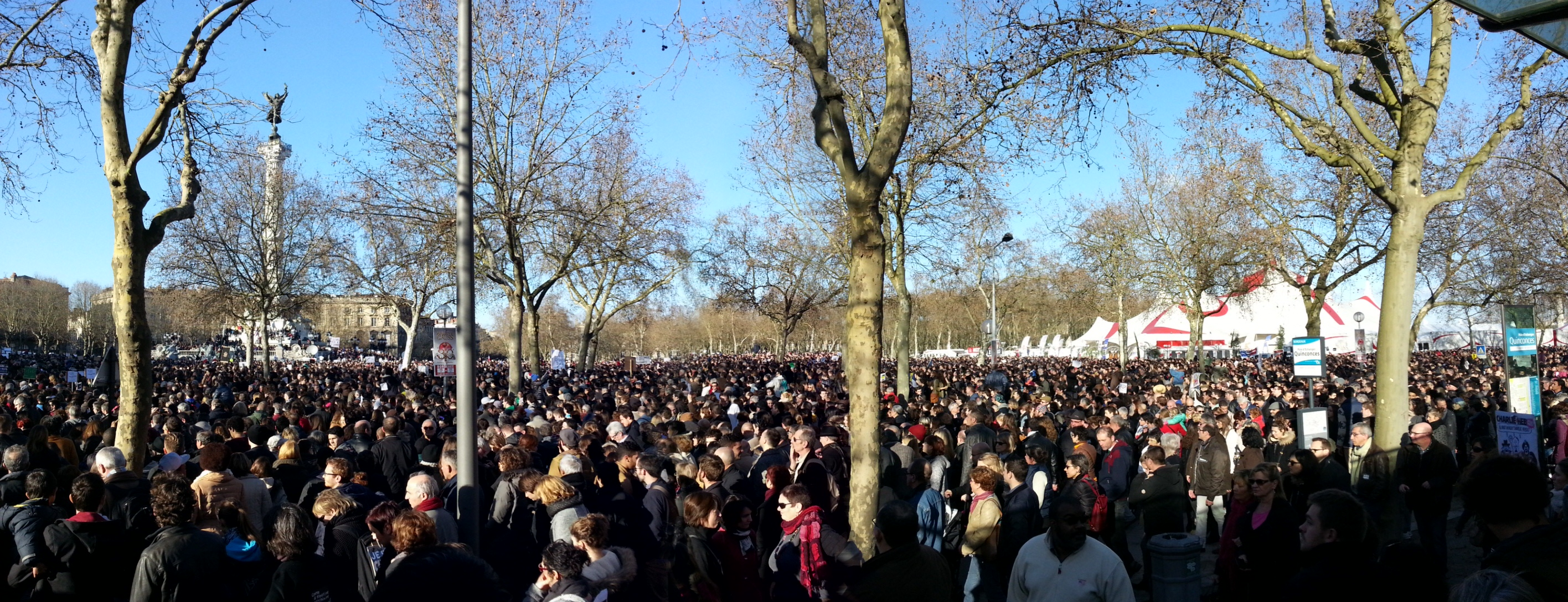 Rally in support of the victims of the 2015 Charlie Hebdo shooting, and the attacks that took place during two days. Bordeaux. According to the newspaper Sud Ouest, around 140,000 persons were there.